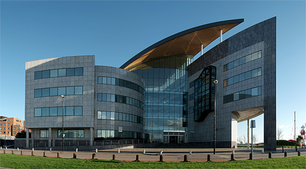 Atradius Head Office UK & Ireland (Cardiff, Wales)